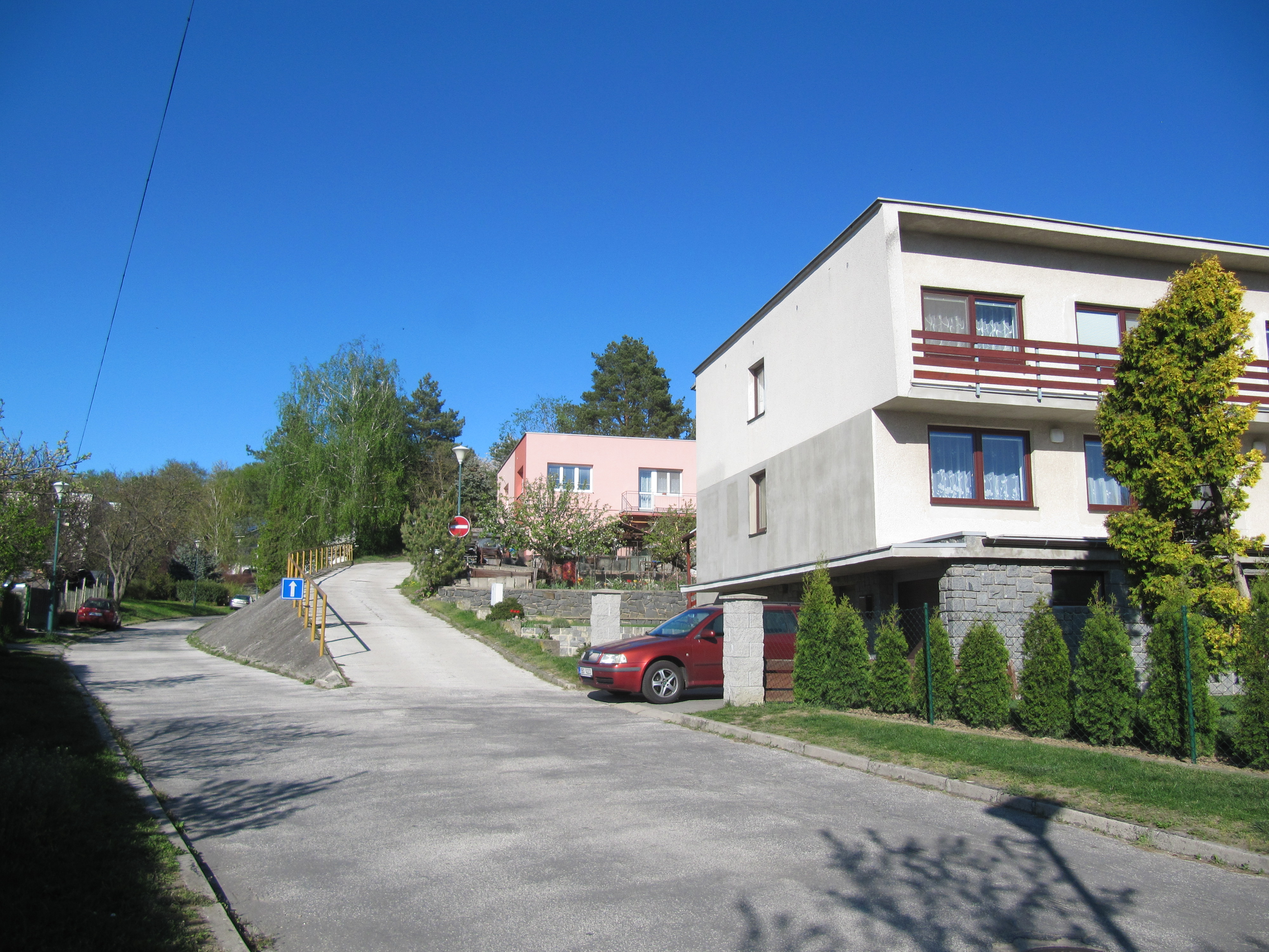 Bzenec, Hodonín District, Czechia.